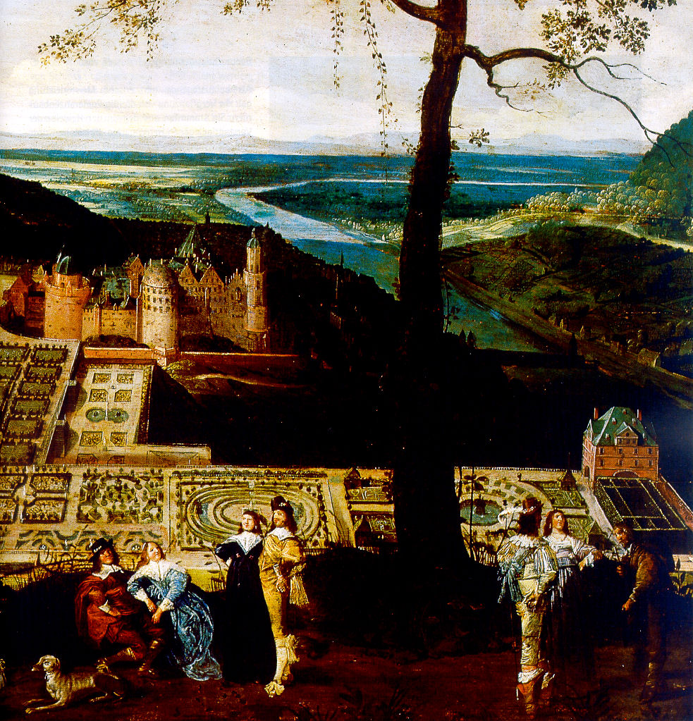 historic views of Heidelberg, Germany